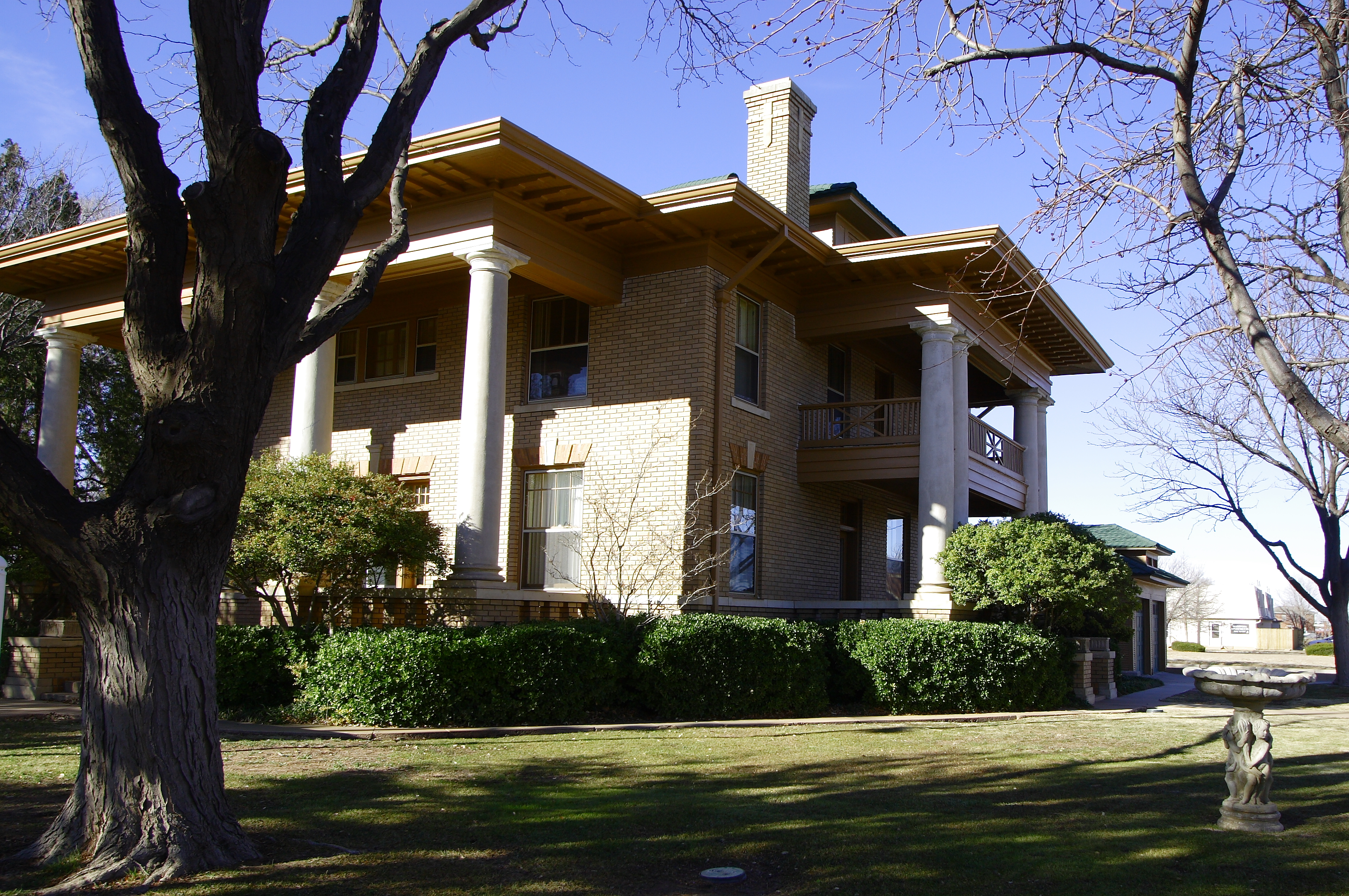 Warren and Myrta Bacon House, view of the east side. Lubbock, Texas.